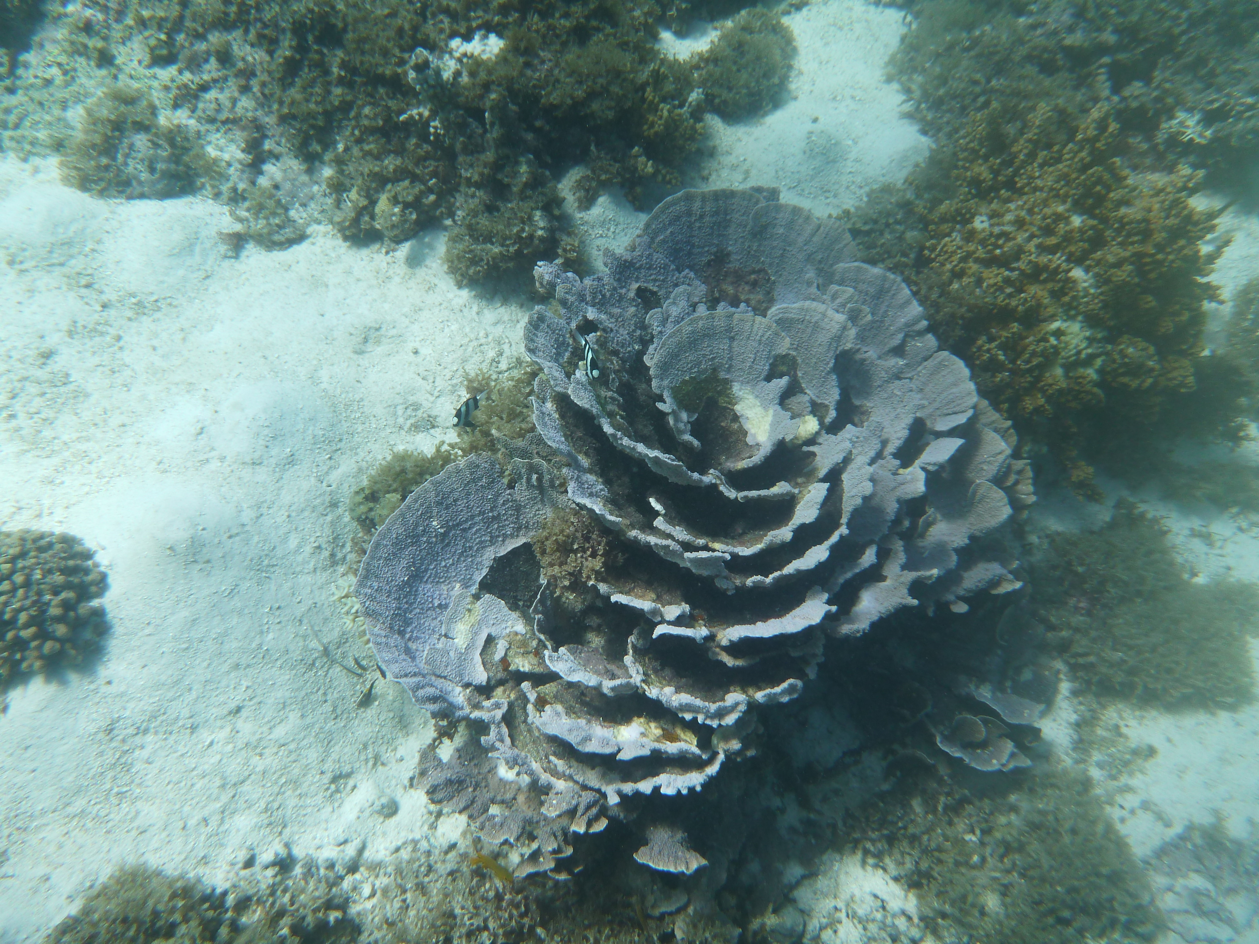 coral 2